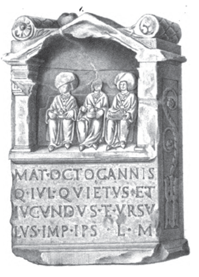 Gallo-Roman-Germanic Matres and Matrones: Replica of an altar for the Mothers of Octocannia (Matronae Octocannae) from Meerbusch, North Rhine-Westphalia, Germany (CIL XIII, 08571 = Lehner 00336).